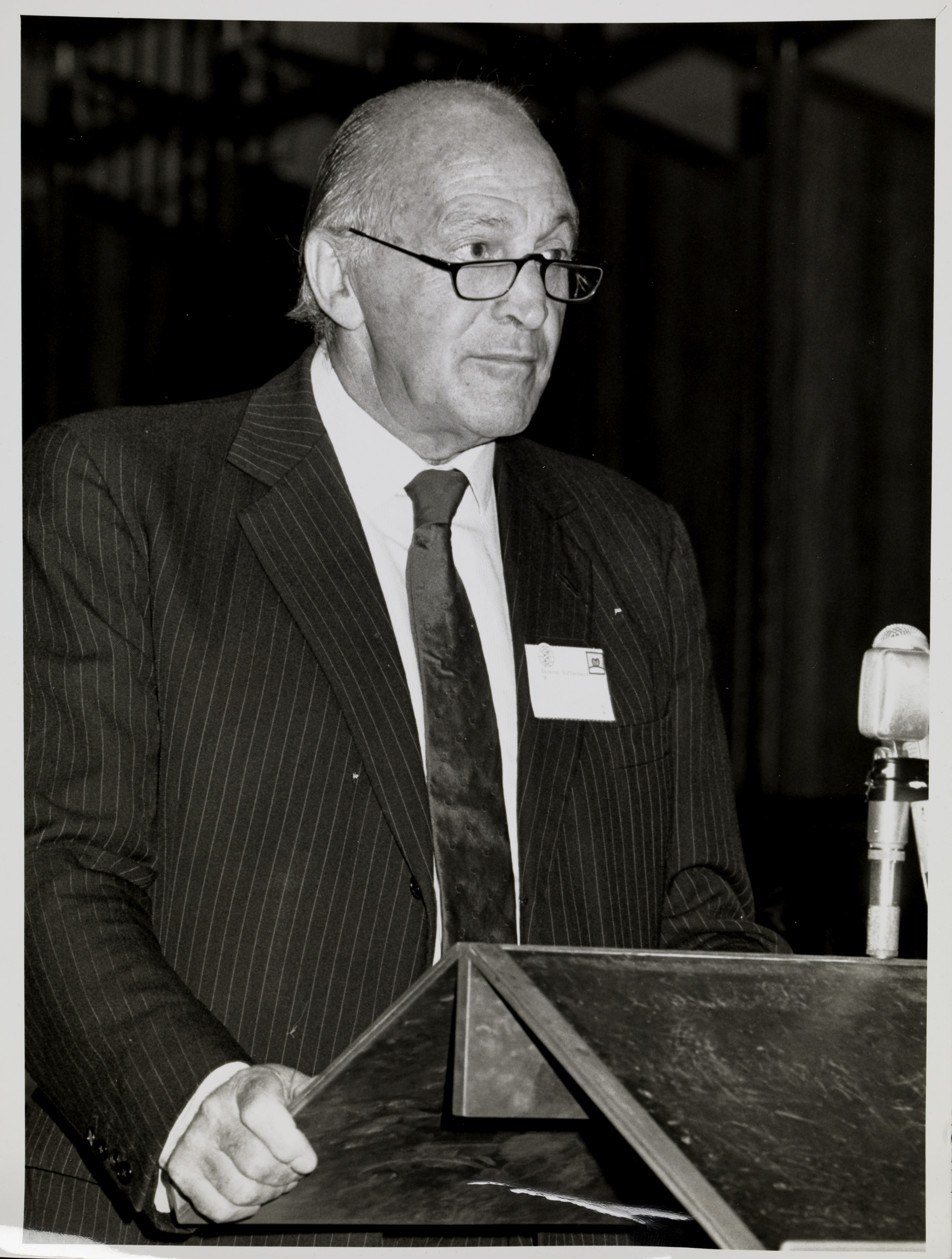 Photograph of Bill Hoffenberg speaking at a conference. Medact was formed in 1992 as a merger between the Medical Campaign Against Nuclear Weapons (MCANW) and the Medical Association for the Prevention of War (MAPW). Archives & Manuscripts